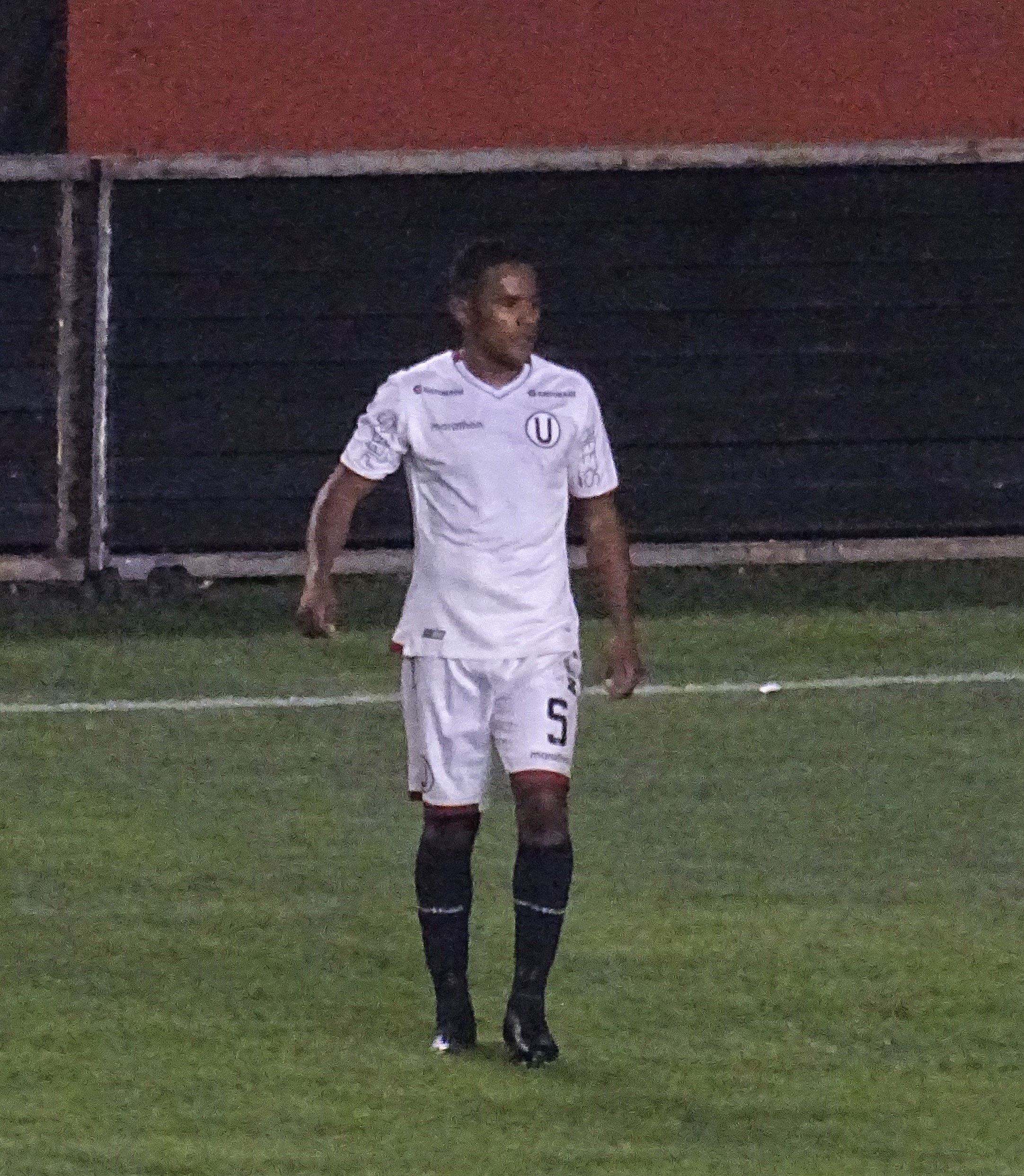 Jersson Vásquez (Lima, 1986) Peruvian footballer. Noche Crema 2018